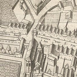 Arnold Mercator - Severinstraße (1570)